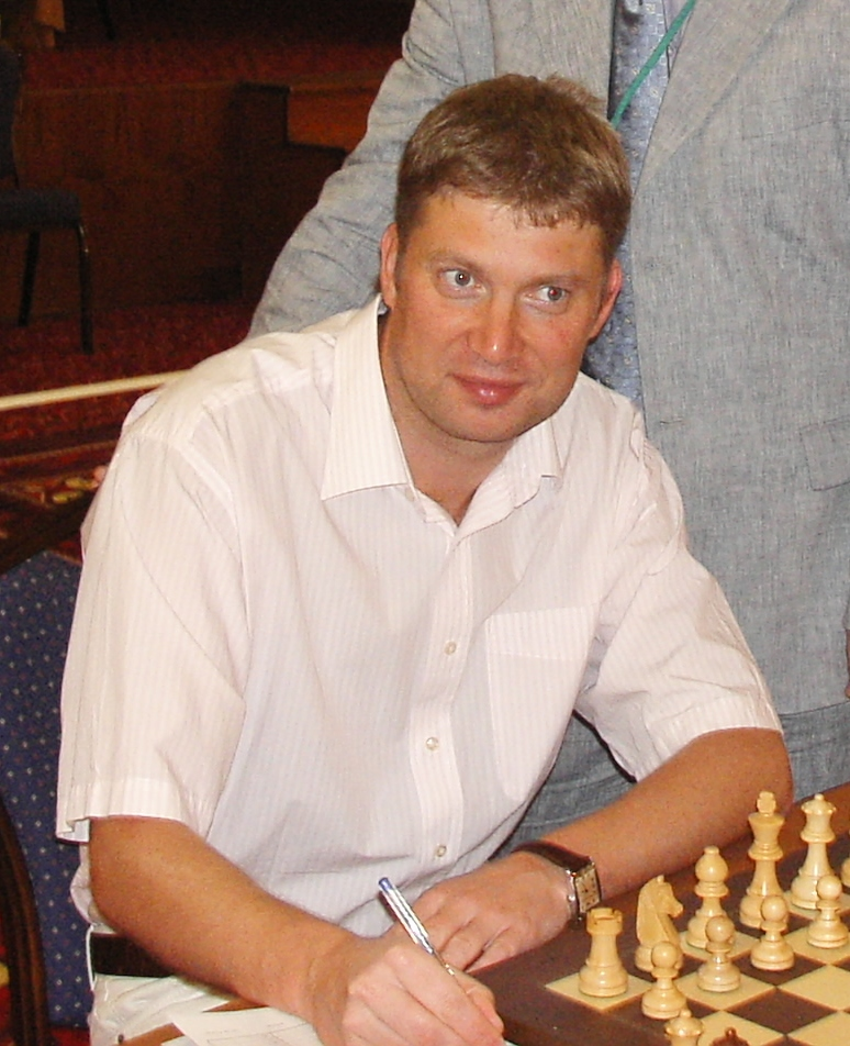 GM Alexei Shirov Spain, EuroChess Heraklion 2007